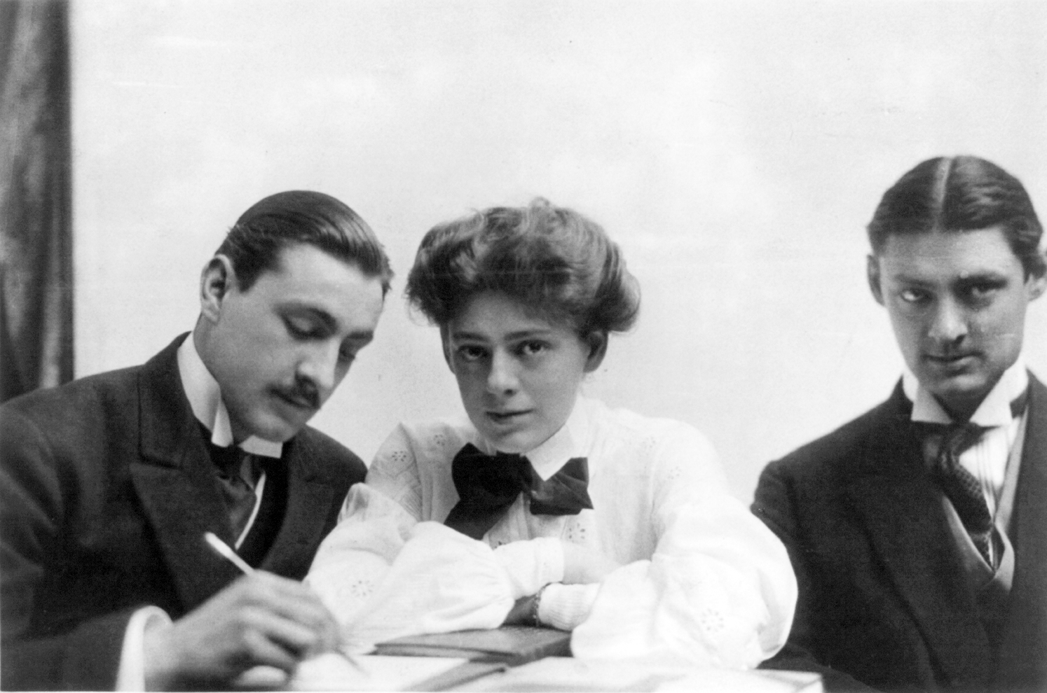 Left-to-right: Lionel, Ethel, and John Barrymore seated at table.